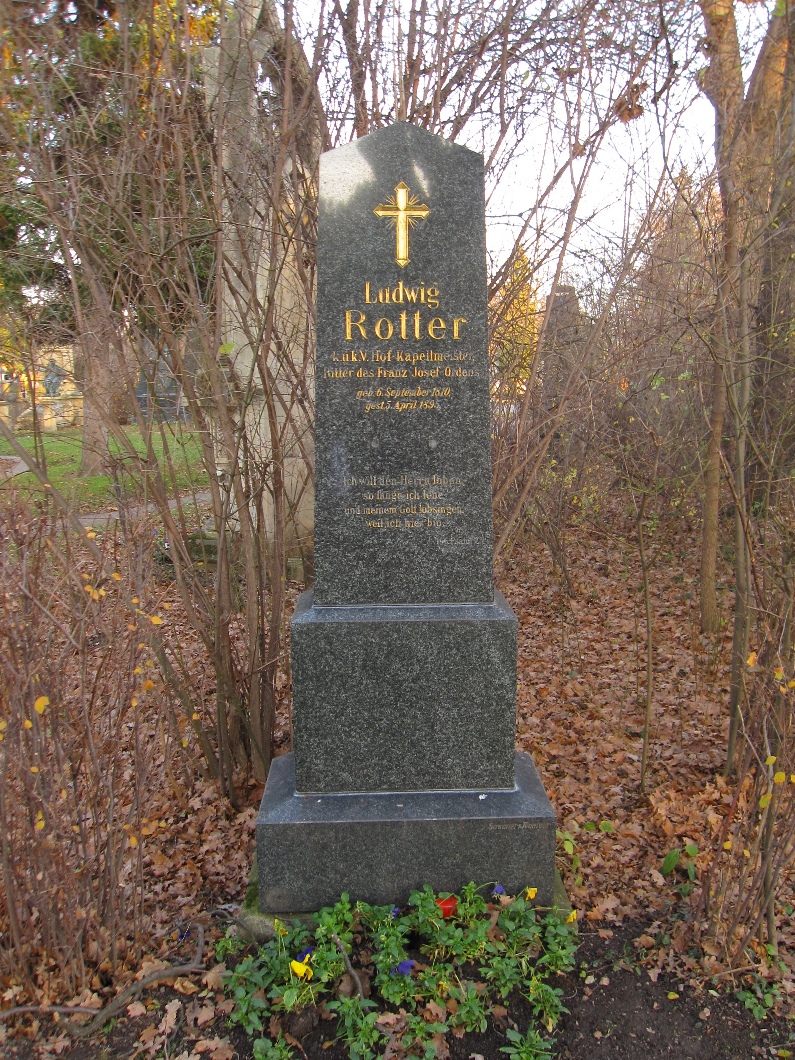 Tomb at the Central Cemetery in Vienna, stonemason work by Sommer & Weniger.